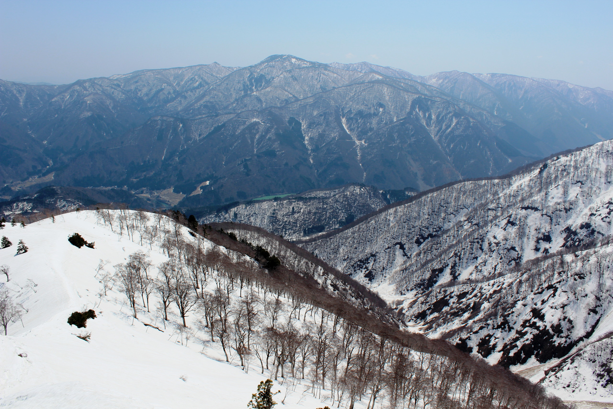 Mount Sarugabanba from Mount Sanpoiwa